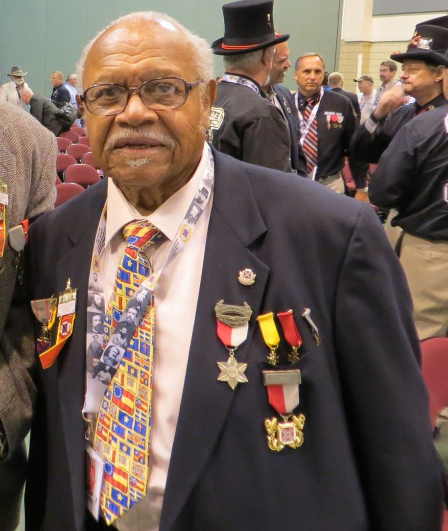 Photo of Nelson Winbush at the 2013 Sons of Confederate Veterans Reunion in Vicksburg, MS.